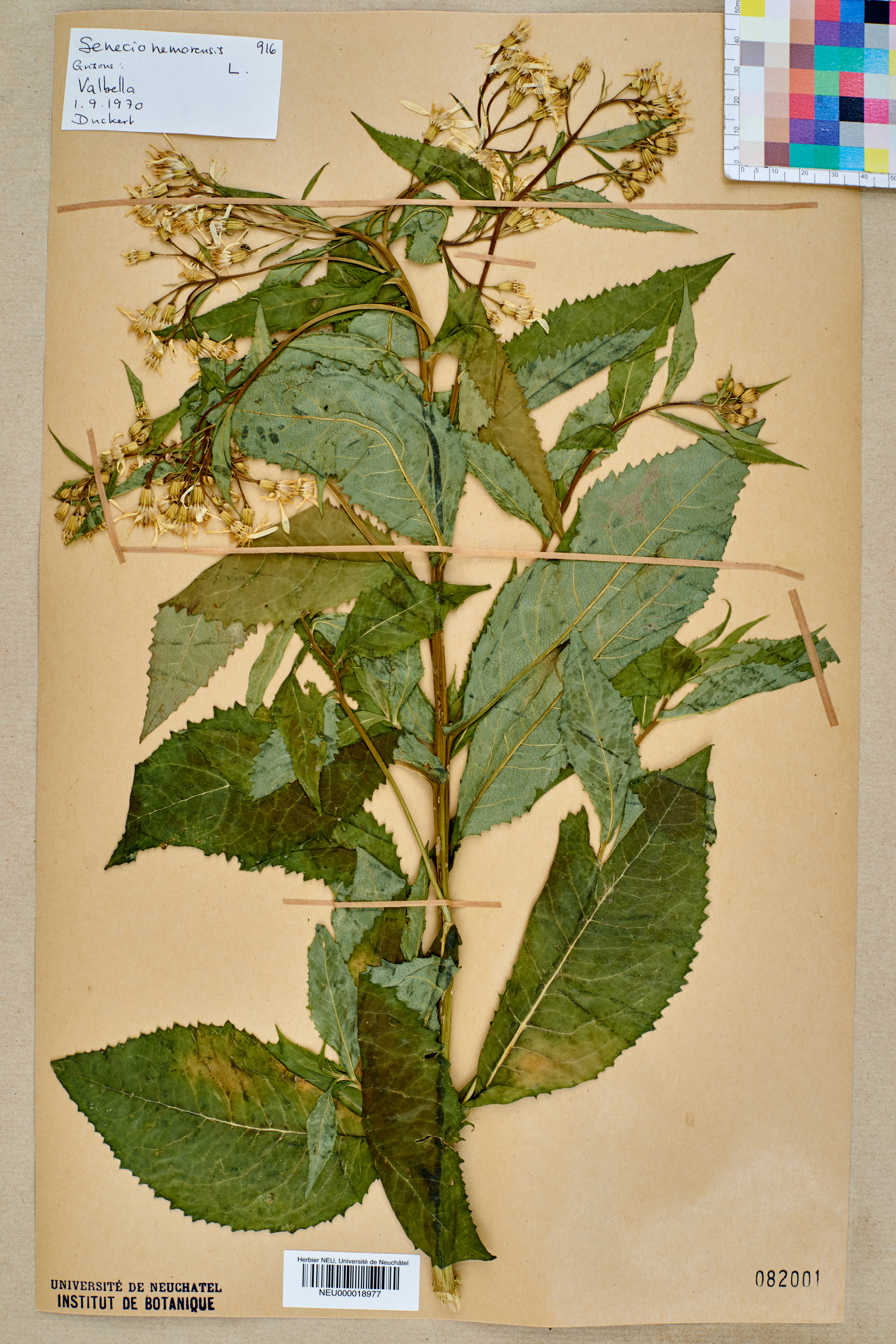 Dried pressed specimen of Senecio nemorensis